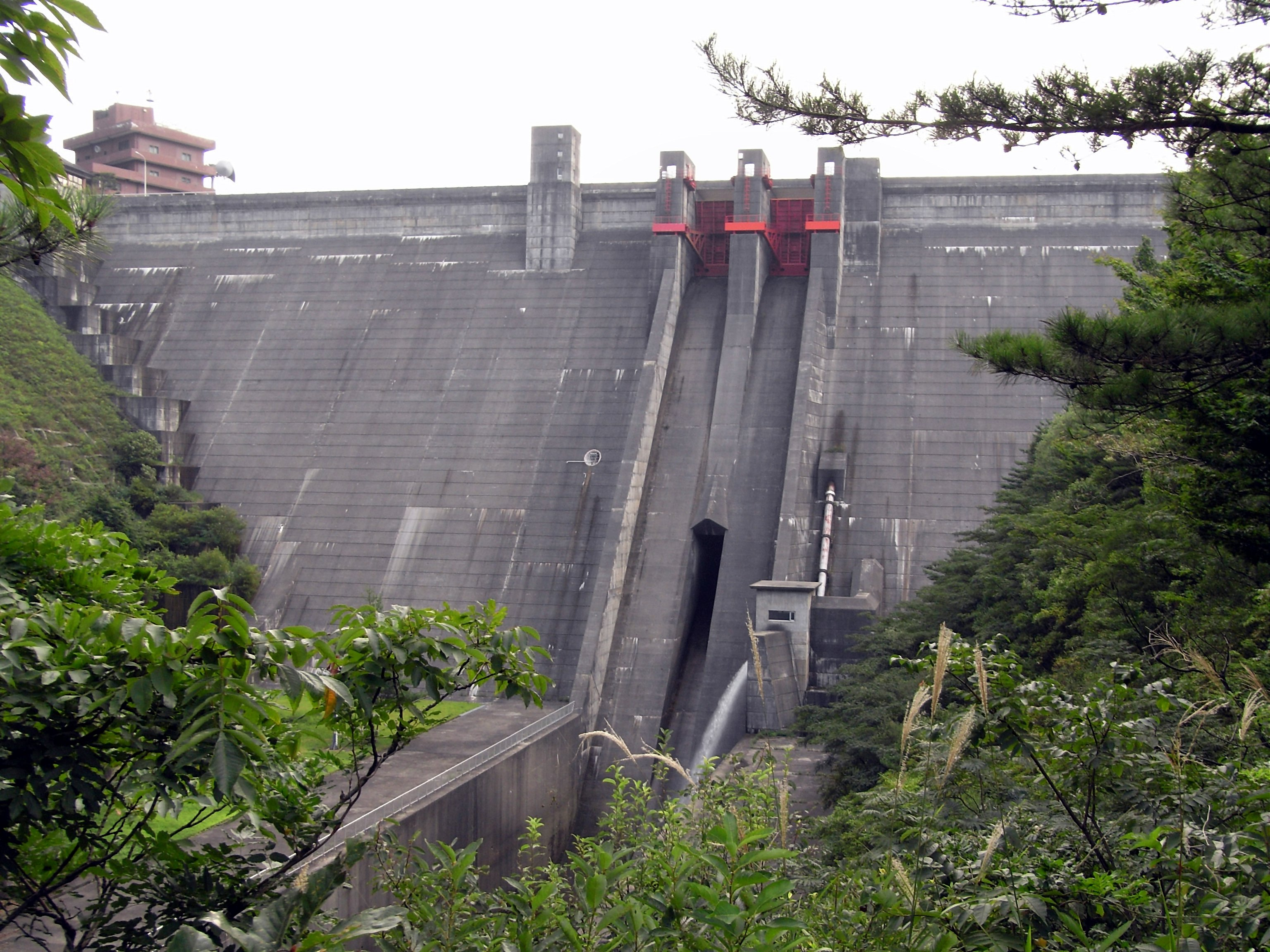 Oishi Dam(Oishigawa river/Niigata Pref./Japan)